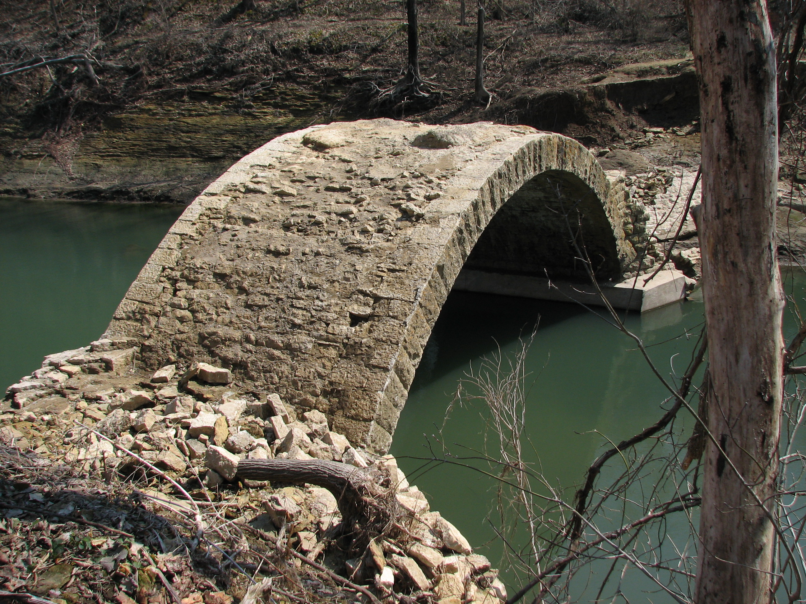 Bridge No. L1409 The road build on top of the stone arch was washed away by the 2007 August flooding. The stone arch was still there in April, 2008.